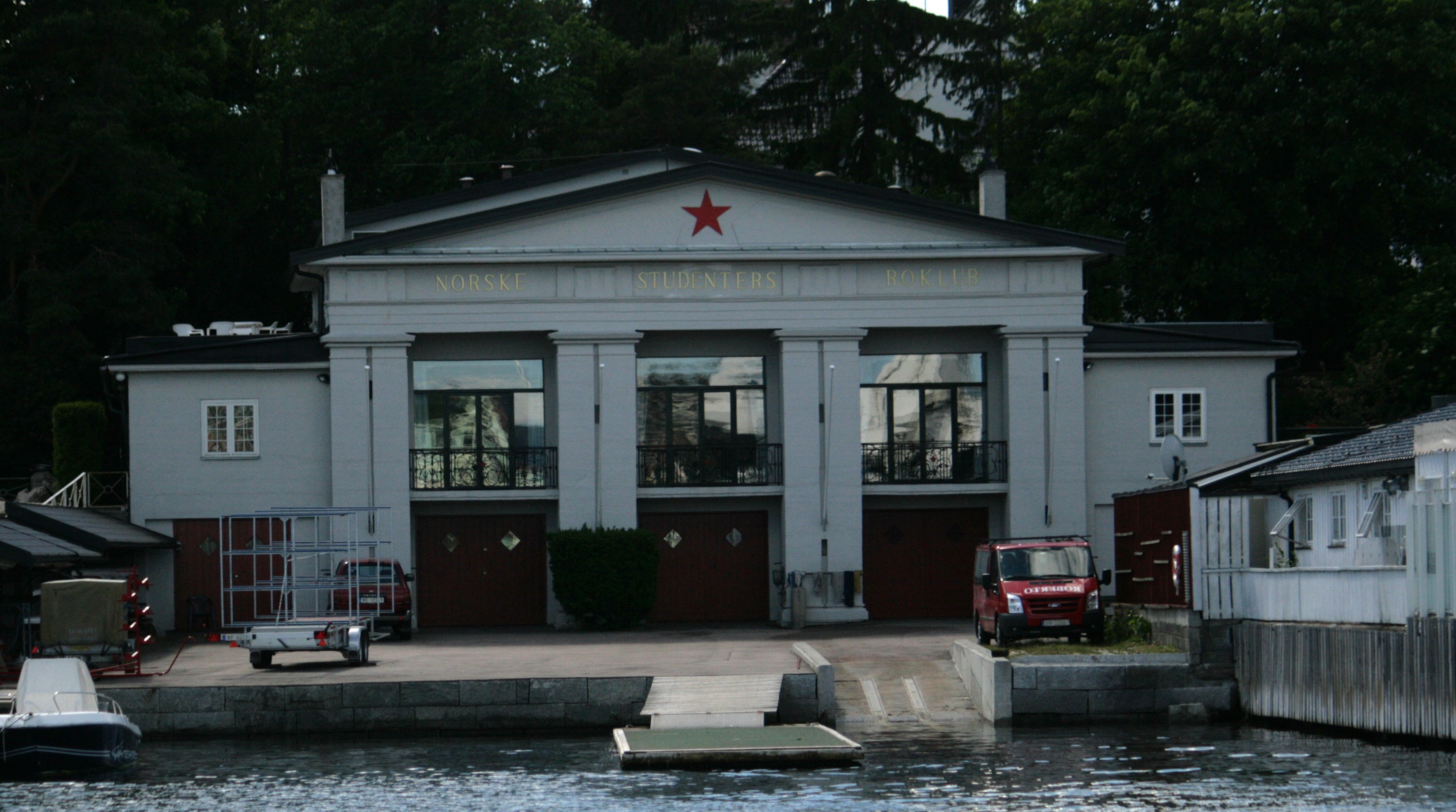 Norwegian Students' Rowing Club at Bygdøy in Oslo, seen from the seaside.